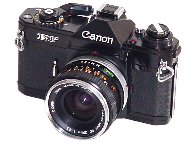 Canon FD from wikipédia Jean-Jacques MILAN 16:38, 9 December 2006 (UTC)